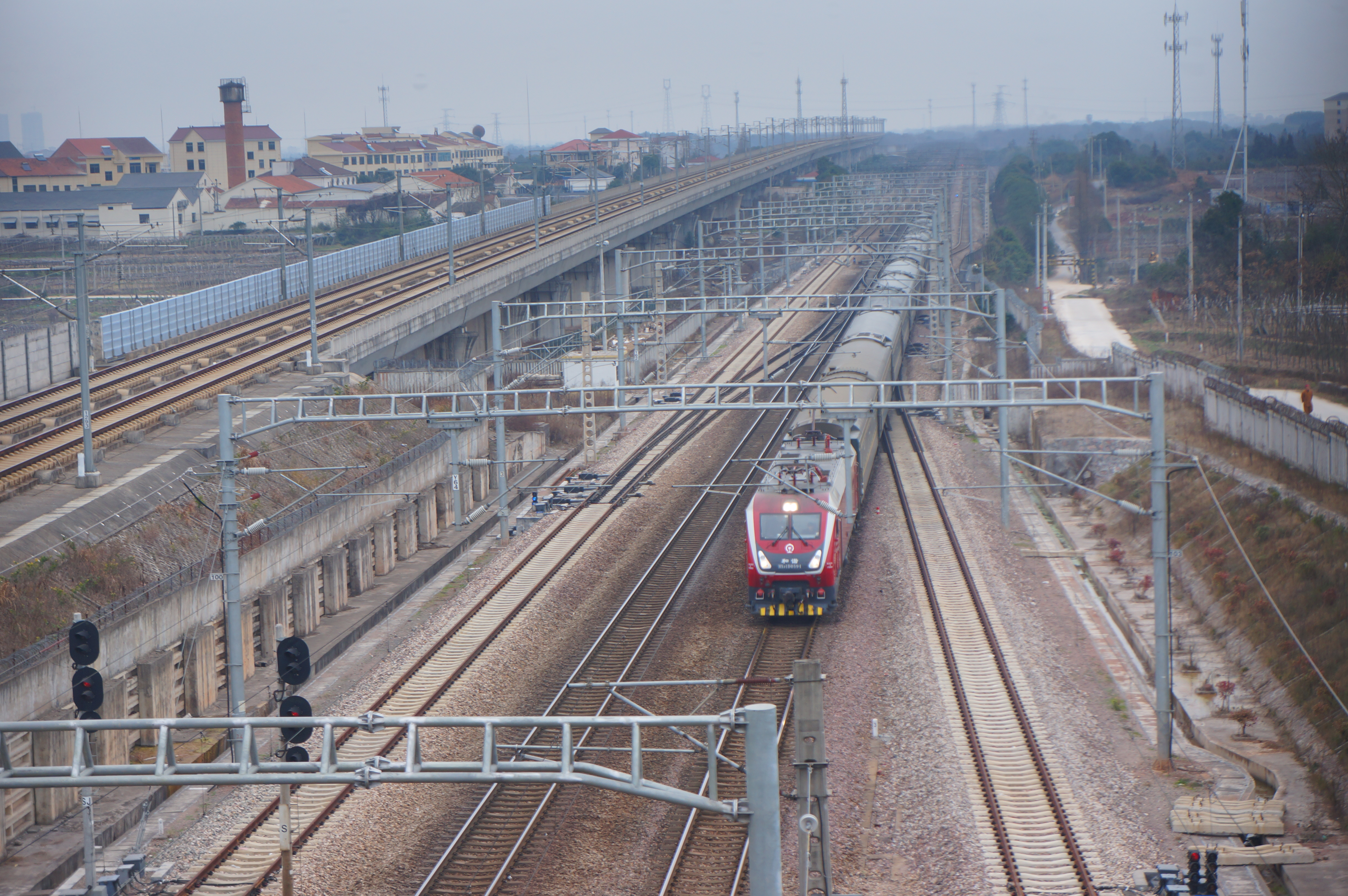 201702 K845 passes Tangya Station